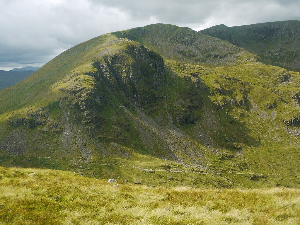 View of Dollywaggon Pike as seen from Deepdale Hause, showing Tarn Crag, Falcon Crag, Cock Cove and The Tongue Dollywaggon Pike